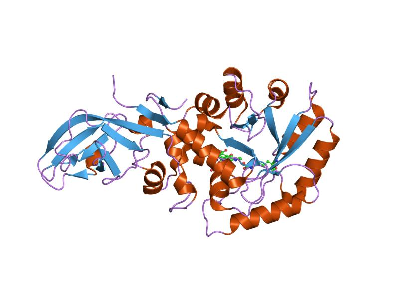 Cartoon representation of the molecular structure of protein registered with 1rcq code.